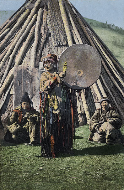 A postcard made in the Russian Empire, early 20th century. Its French caption means "An Altai shaman (sorcerer)". It can be found at a Tomsk museum. The ethnographer Hoppál identifies the shamaness to be either an Altai-Kizhi or a Khakas, unable to be more precise based on this image alone.[1] The ethnographic photo on which this postcards was based had been taken by ethnographer S. I. Borisov in 1908.[2]. Note that the standing woman is holding a shaman's drum, not a gong.